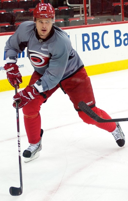 Alexei Ponikarovsky practicing with Carolina Hurricanes